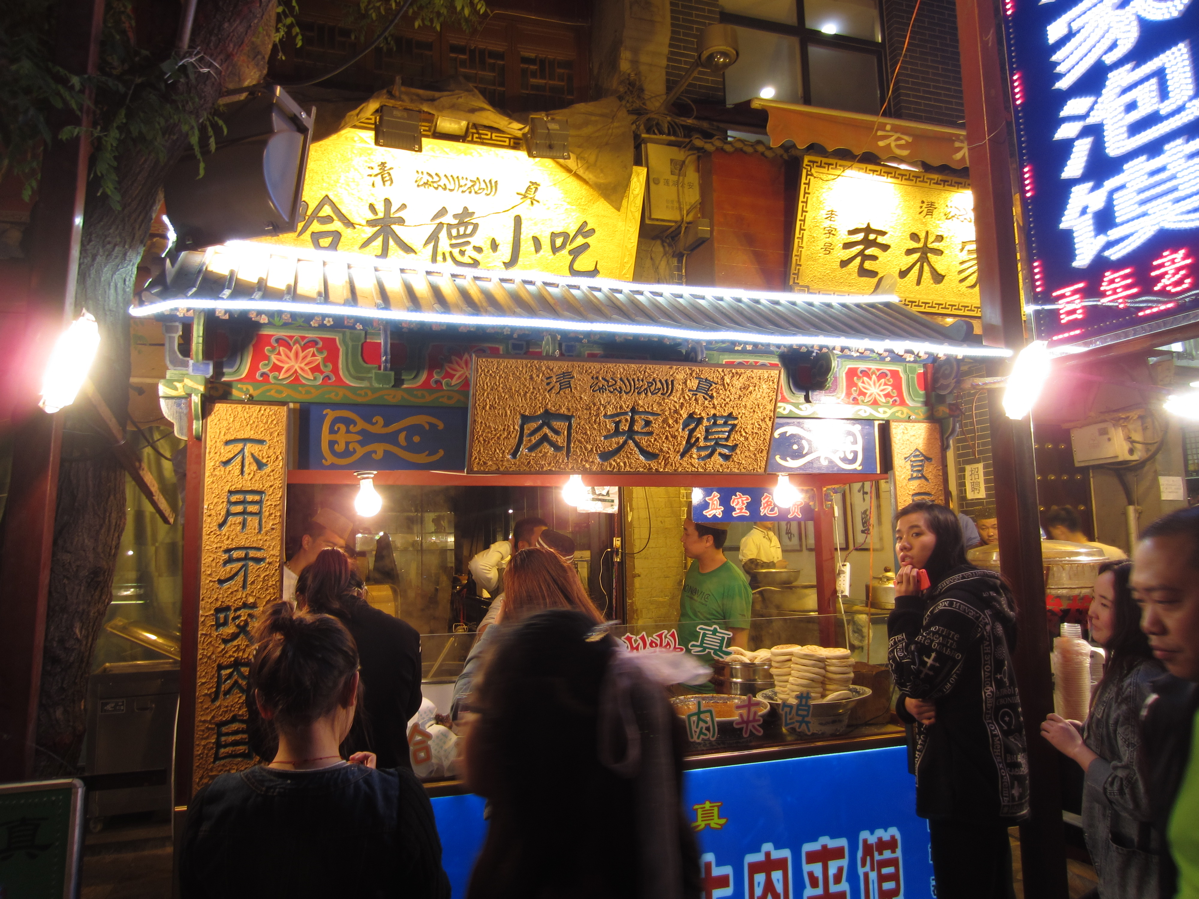 Rou jia mo